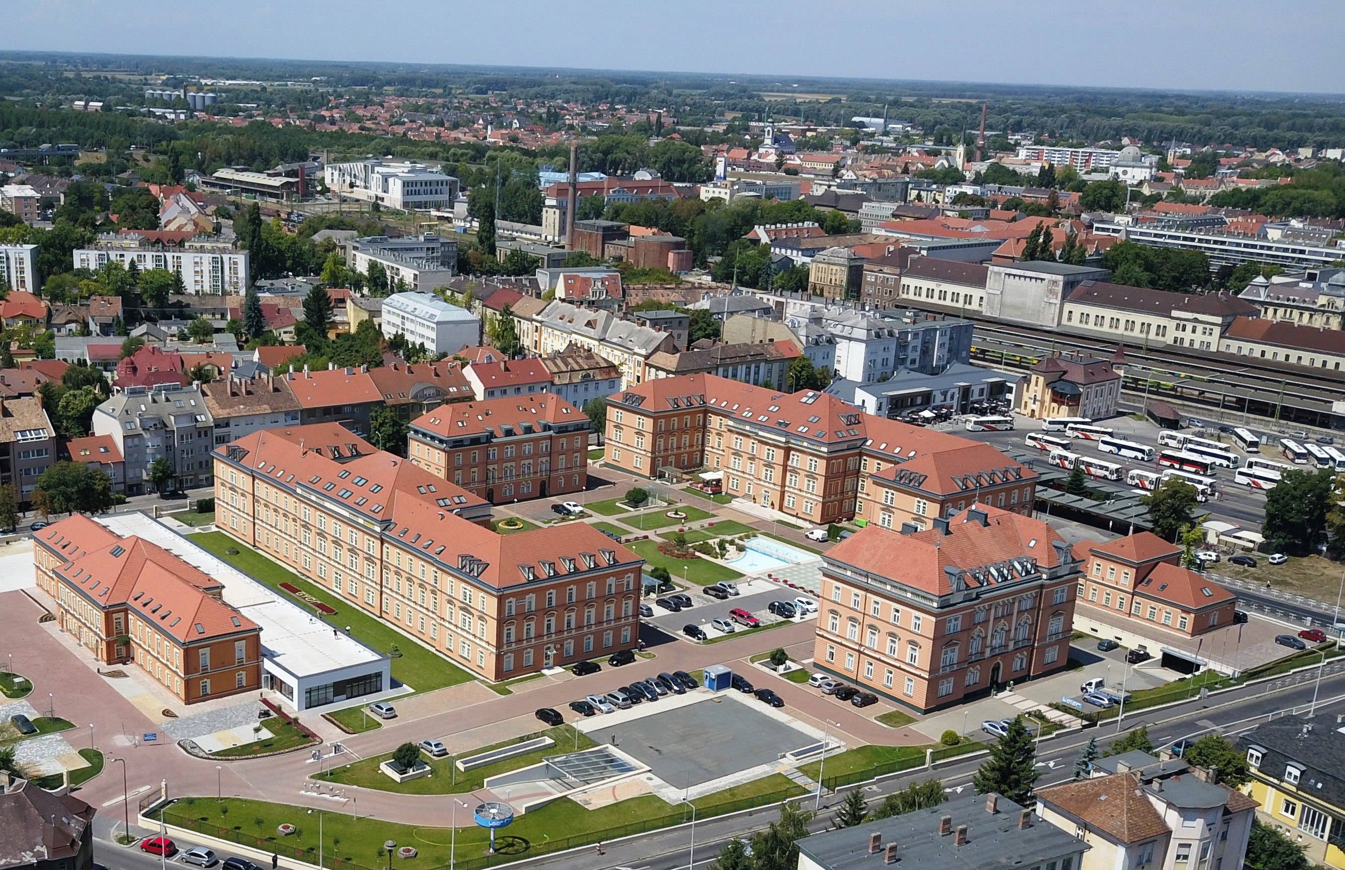 DCIM\100MEDIA\DJI_0660.JPG